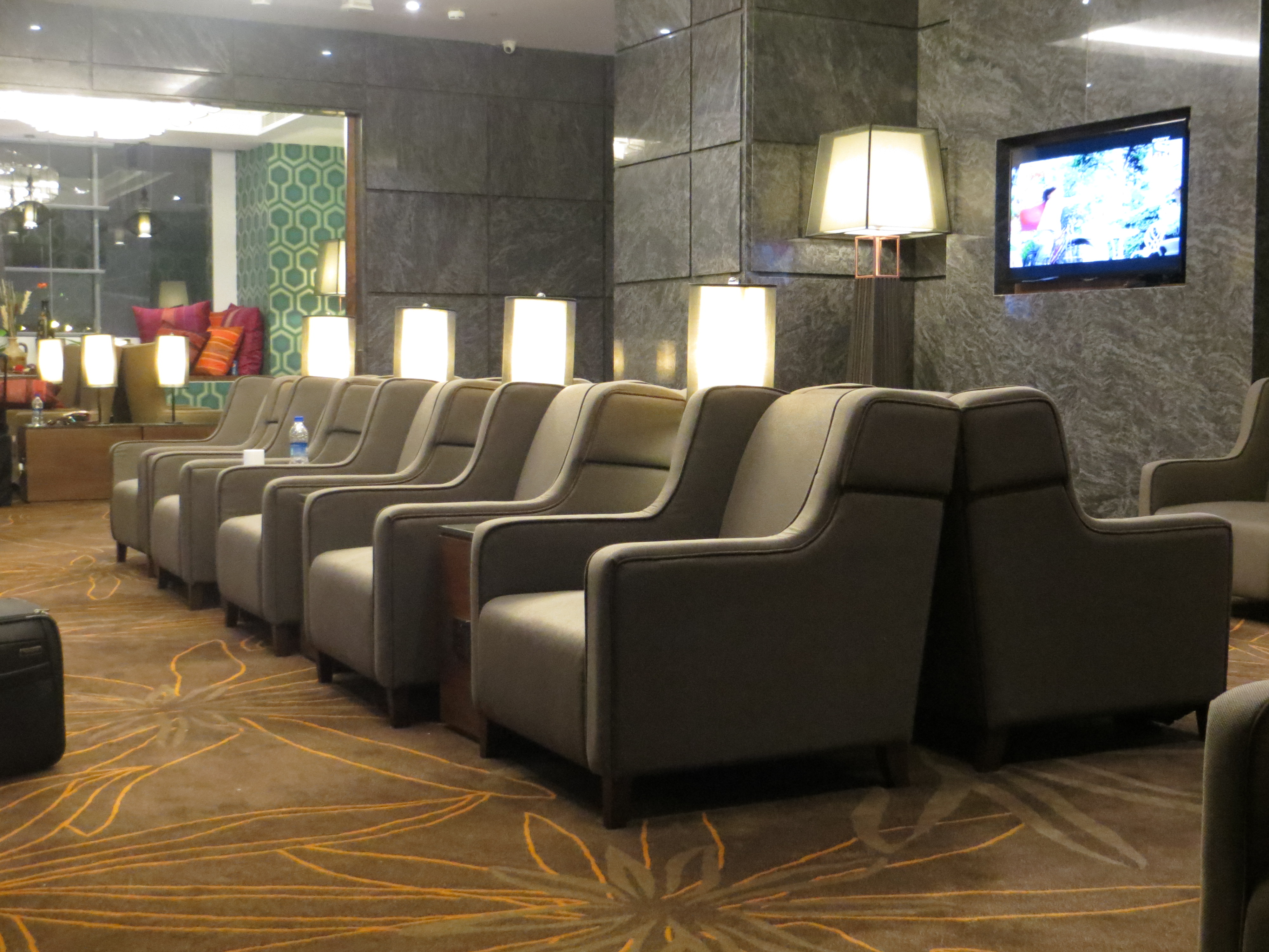 The Plaza Premium lounge at Bangalore Airport